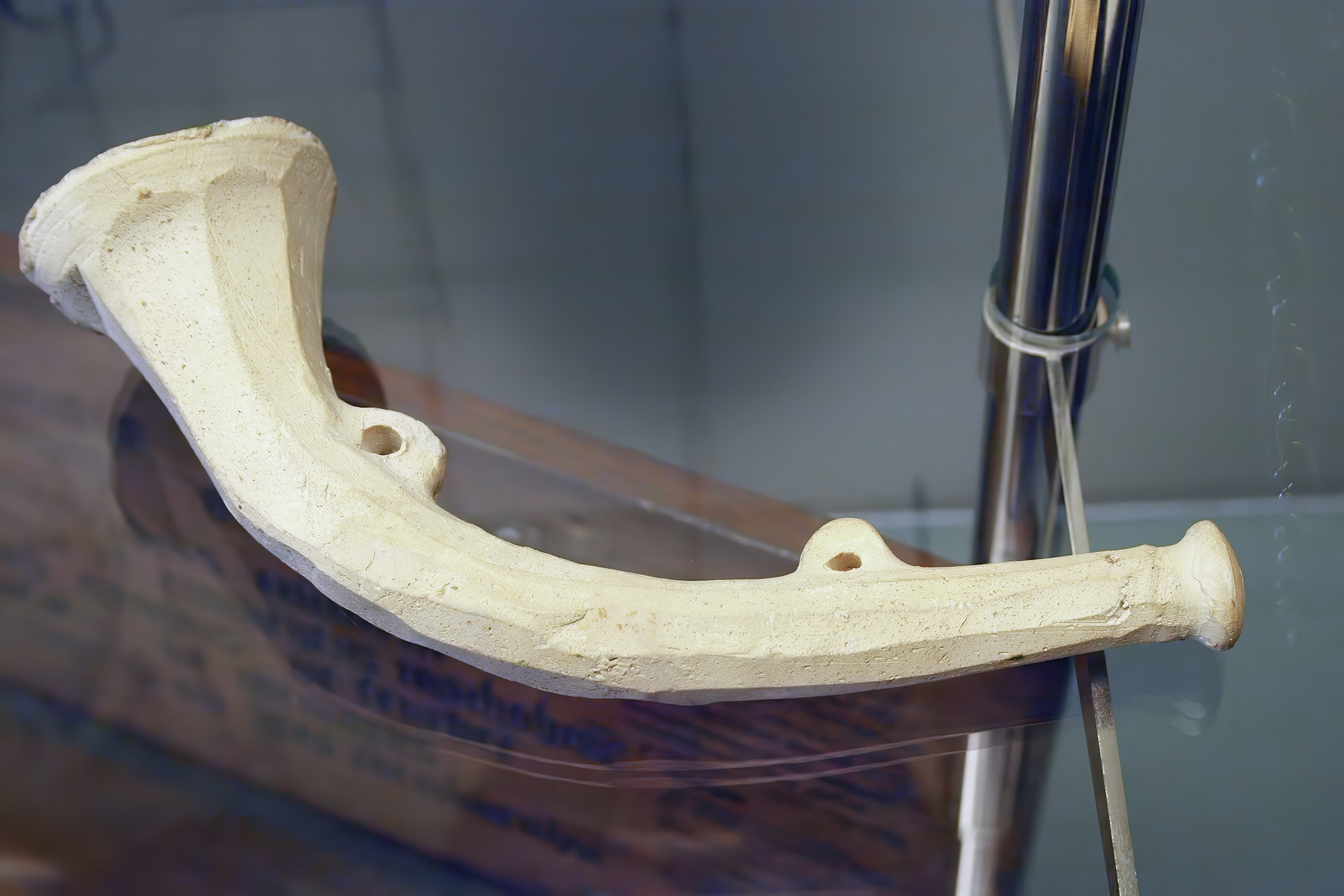 A pilgrims horn, a so called Aachenhorn made of white clay. Dating to circa 15th century AD. Found in Cologne, Germany. Photographed at Kölnisches Stadtmuseum, Cologne, Germany, Inventory number: KSM 1988/893